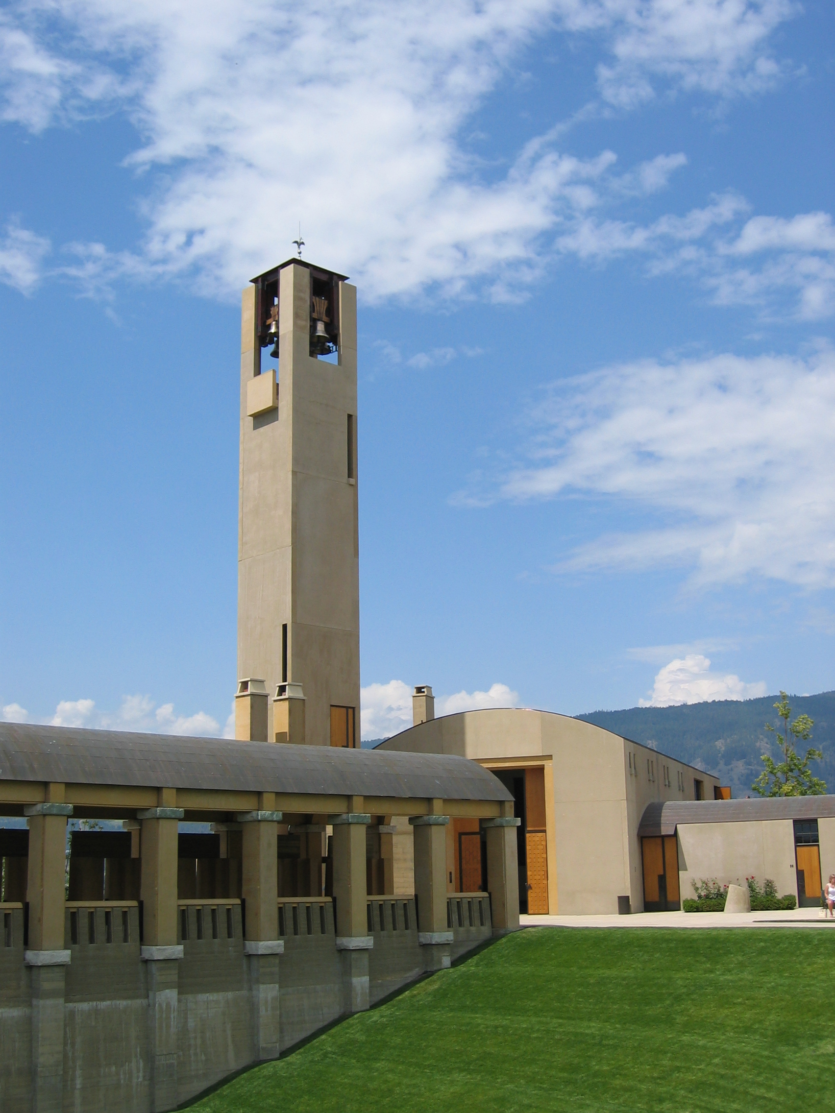 The bell tower at Mission Mill Winery in Westbank, BC